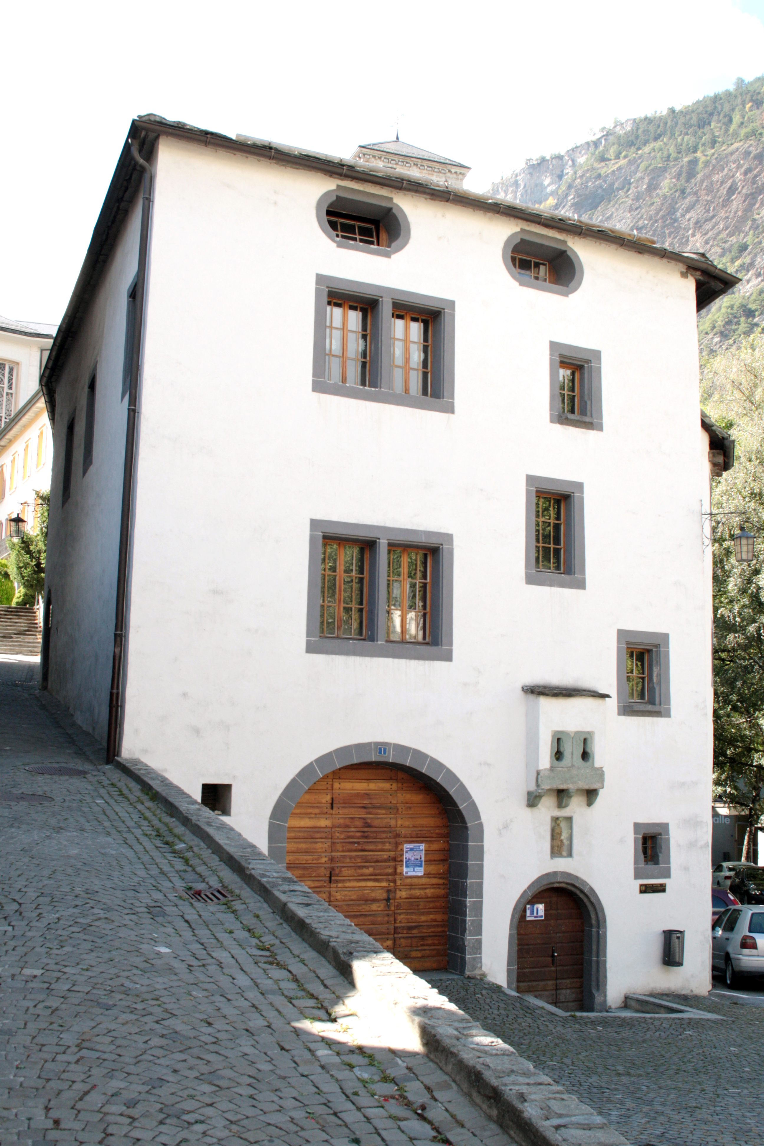 Altes Spittel